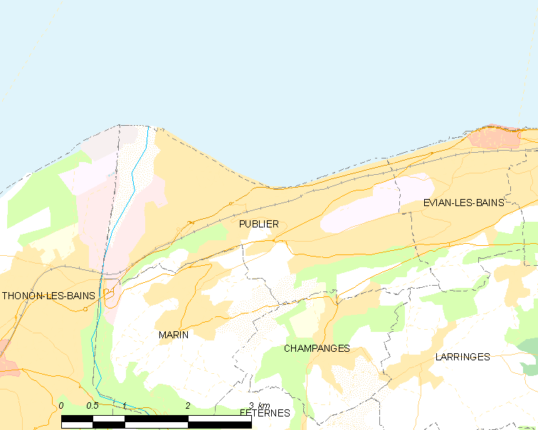 Map of French municipality Publier